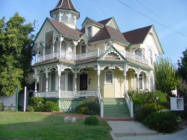 824 East Kensington Road, Los Angeles, CA, Angeleno Heights, This Queen Anne Victorian home with Moorish and Eastlake influences, was built in 1892. The location was soon the epicenter of the Los Angeles Oil Field and became surrounded by oil derricks. The home was moved to Angeleno Heights in 1900 and was the first home in the neighborhood to have electricity.